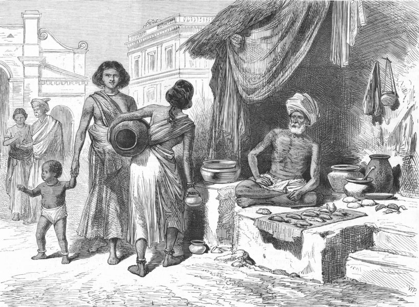 "Bazaar at Madras," from The Graphic, 1875 Source: ebay, Aug. 2006